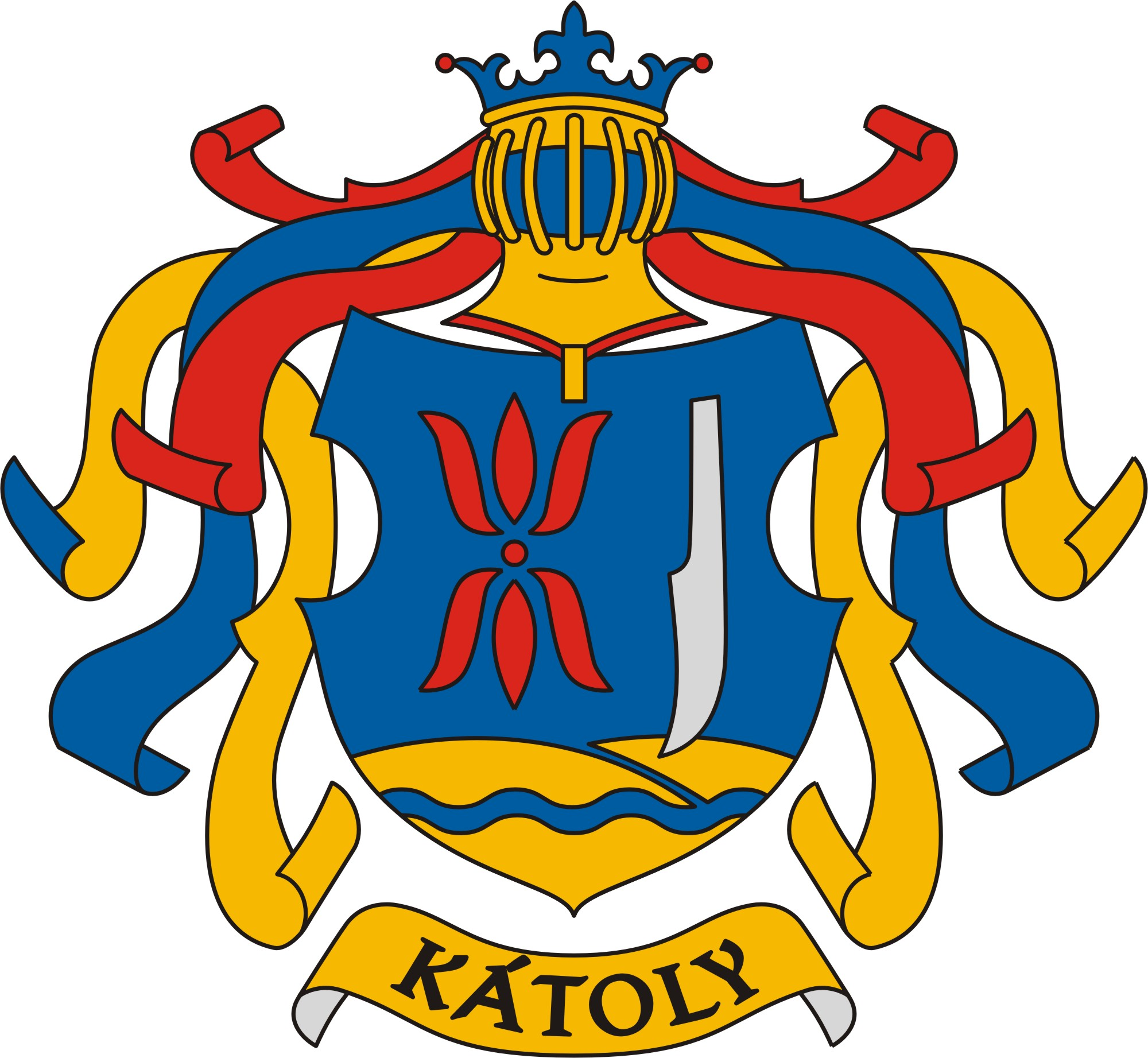 Coat of arms of Kátoly, Hungary